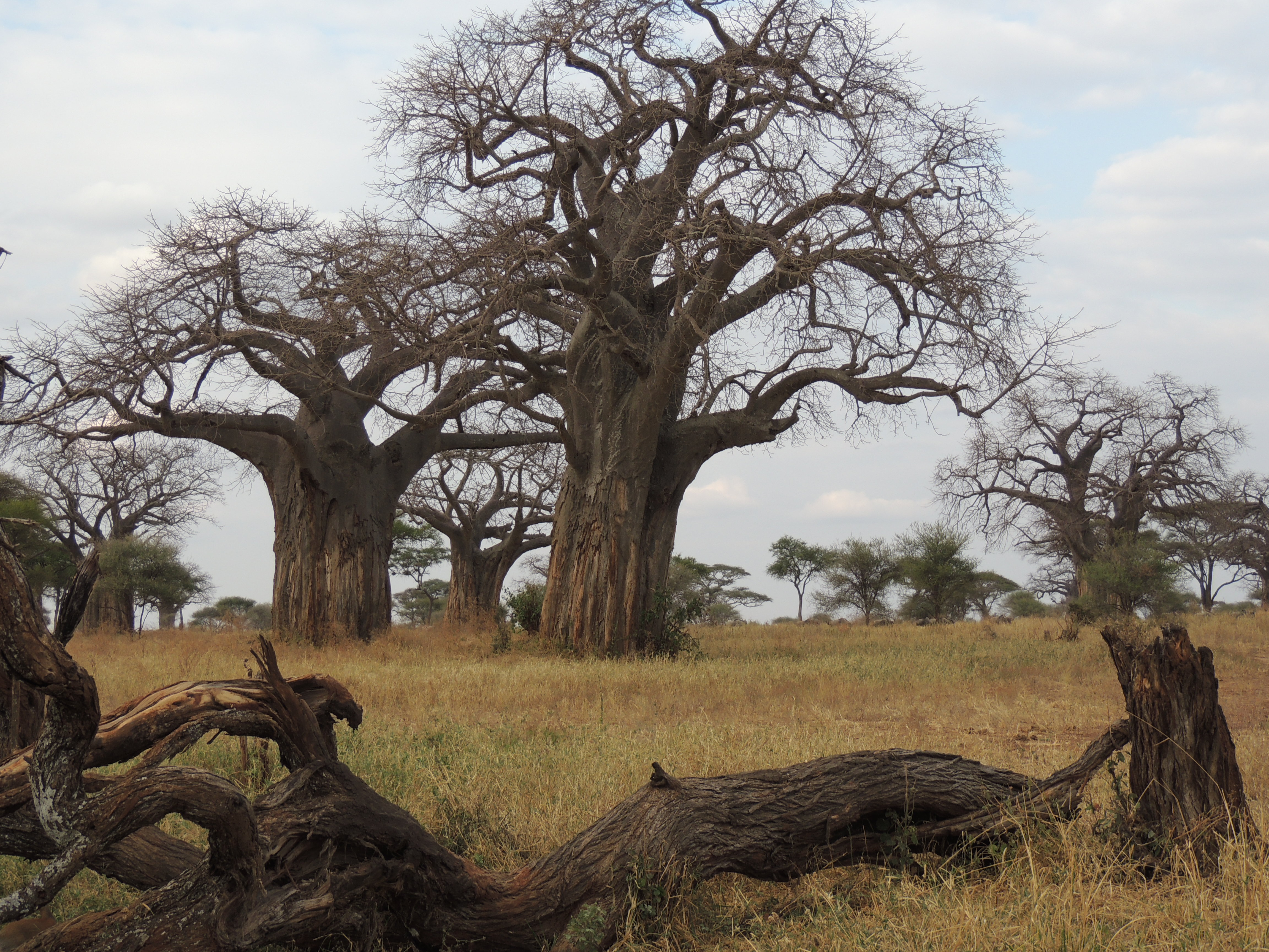 Adansonia digitata - baobabs